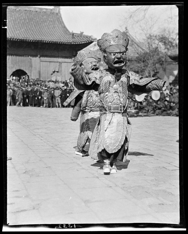 Devil Dance at Lama Temple, March 1 1919, Big Head Dancers Date: 1919-03-01 Location: Beijing, China